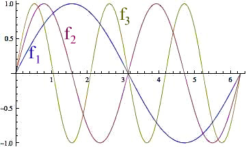 A sequence of functions fn = sin(nx) on [1, 2pi].